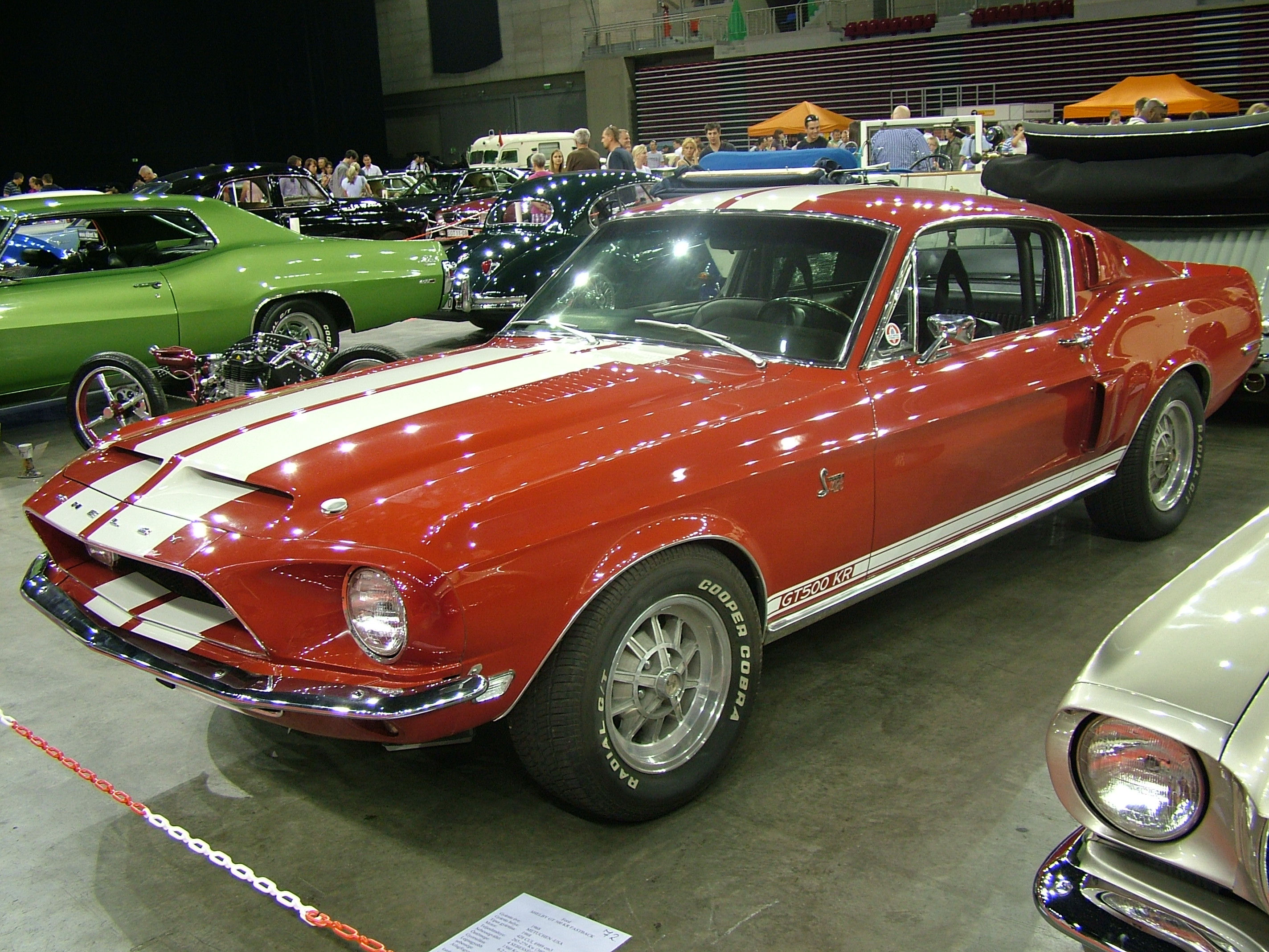 Ford Mustang Shelby GT500 KR Fastback, 1968